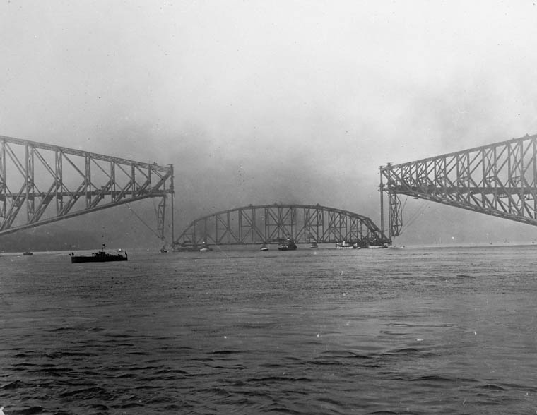 Some moments before the collapse of the centre span of the Quebec Bridge in 1916